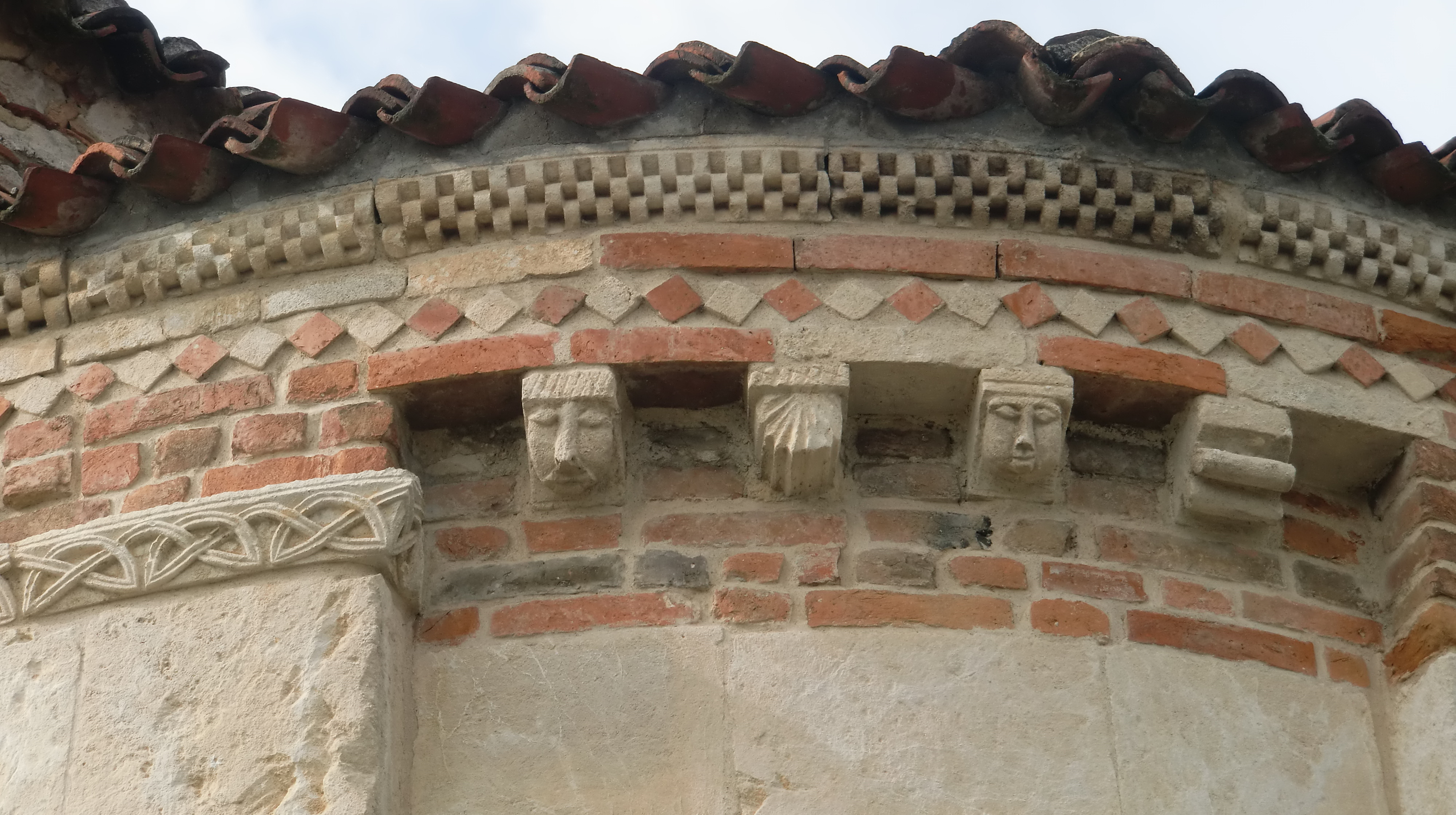 Pieve di San Lorenzo, Montiglio Monferrato (AT), Italy, romanesque church, XII century, decorative elements of the apse